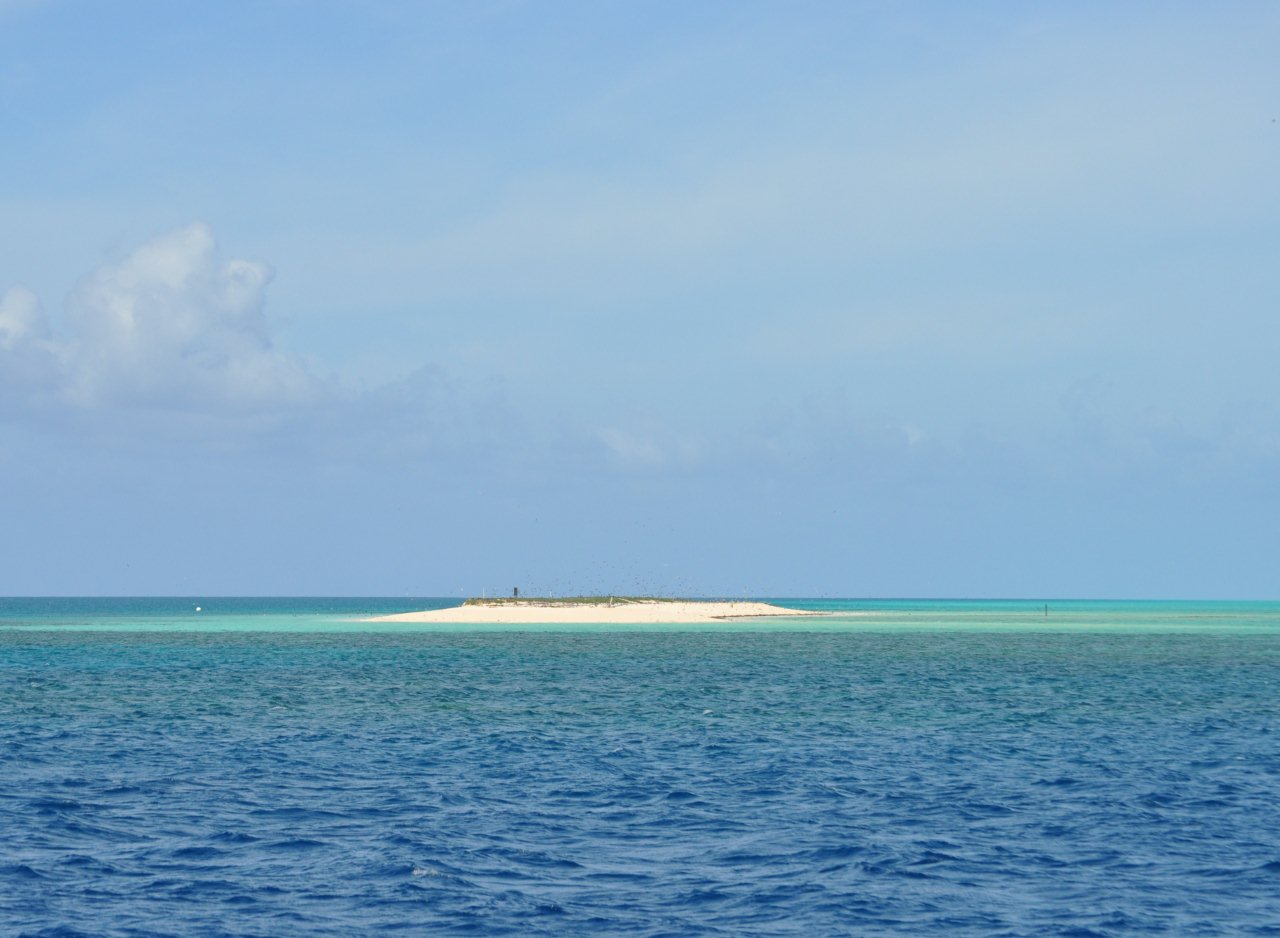 View of Michaelmas Cay from just Southwest of the cay.